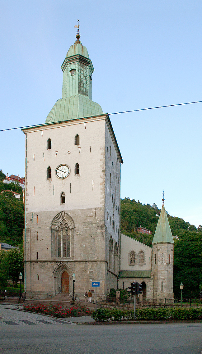 Bergen Cathedral. Edit of Image:Bergen domkirken.jpg, perspective corrected, sharpened.